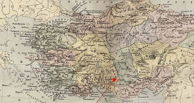 Asia Minor. Including Pontus, Cappadocia, Cilicia, Pisidia, Lycia, Caria, Lydia, Mysia, Bithynia, Paphlagonia, Phrygia, and Crete. "These color maps are 11" x 13.5" when printed at 300dpi. They were copied from an original 1886 Ginn & Company Classical Atlas designed by mapmaker Keith Johnston. These maps are completely Public Domain and can be used absolutely without restriction or even sold commercially without my permission. (There is slight distortion caused by the age of the original and merging the scans (two scans per map)" Information from